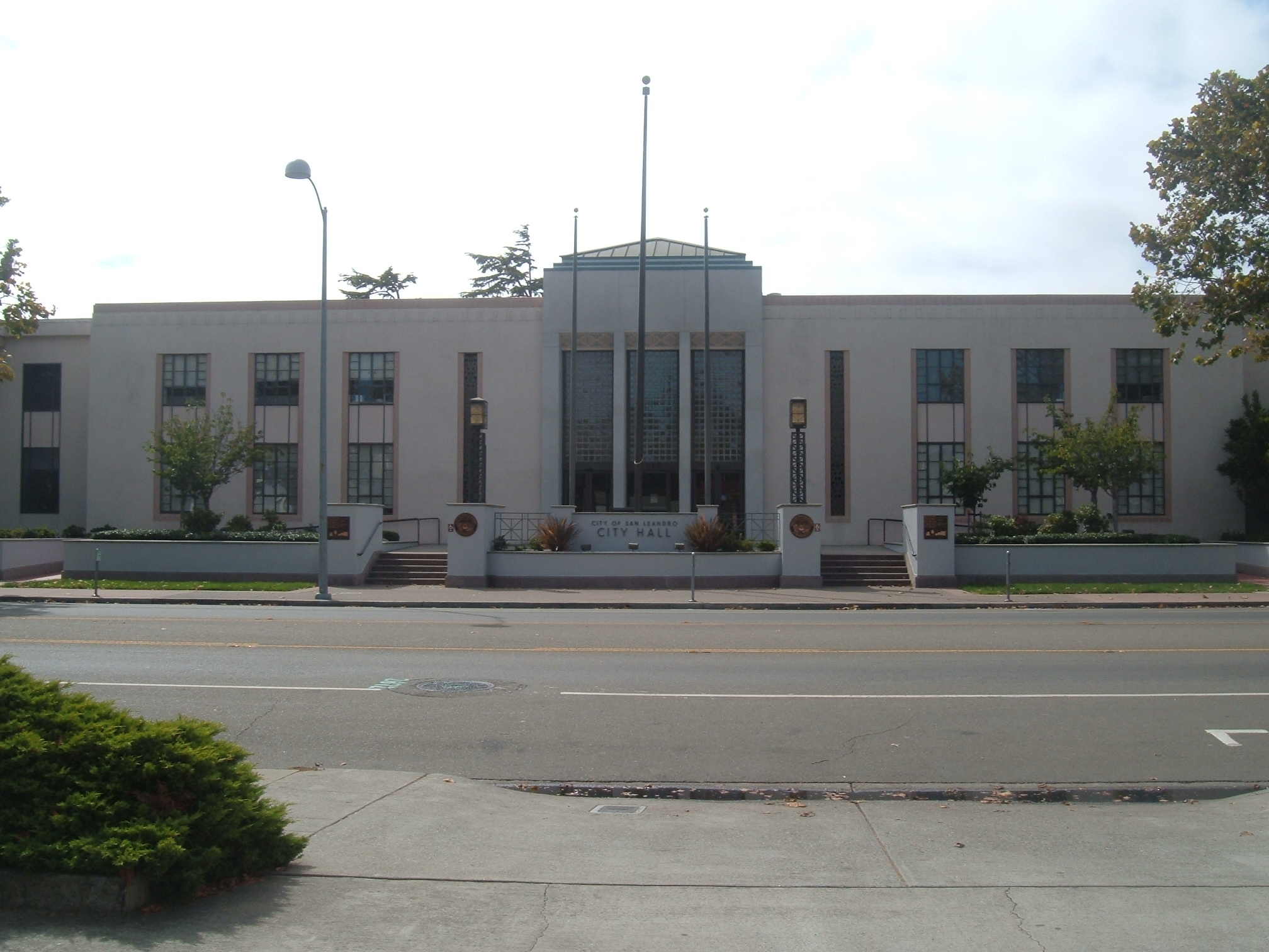 Photo of San Leandro City Hall taken on October 5, 2008